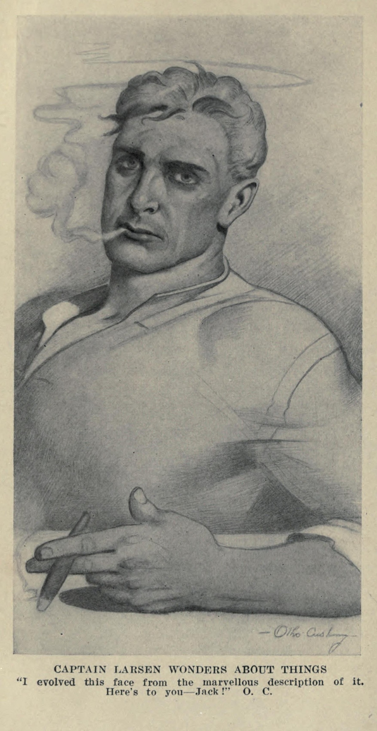 Drawing of Capt. Wolf Larsen from The Sea Wolf